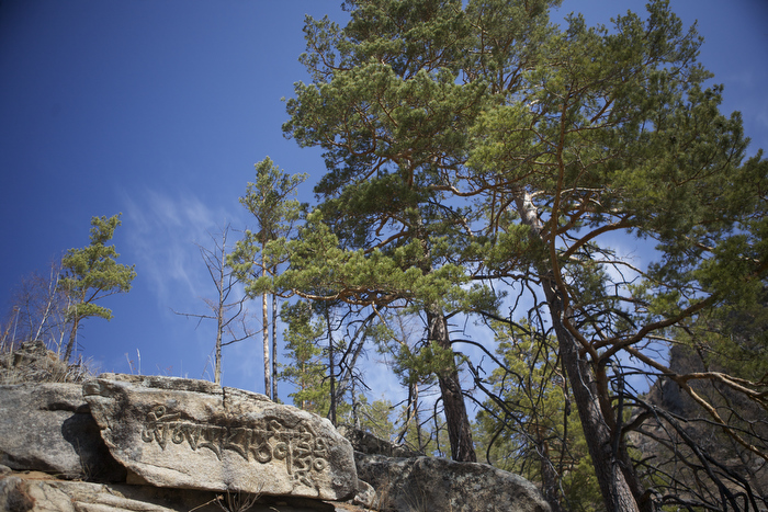 Buddhist rock carvings at Baldan Baraivan Monastery. Khentii Province, Mongolia.